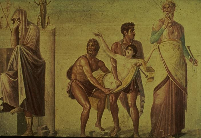 Cuadro sobre drama griego